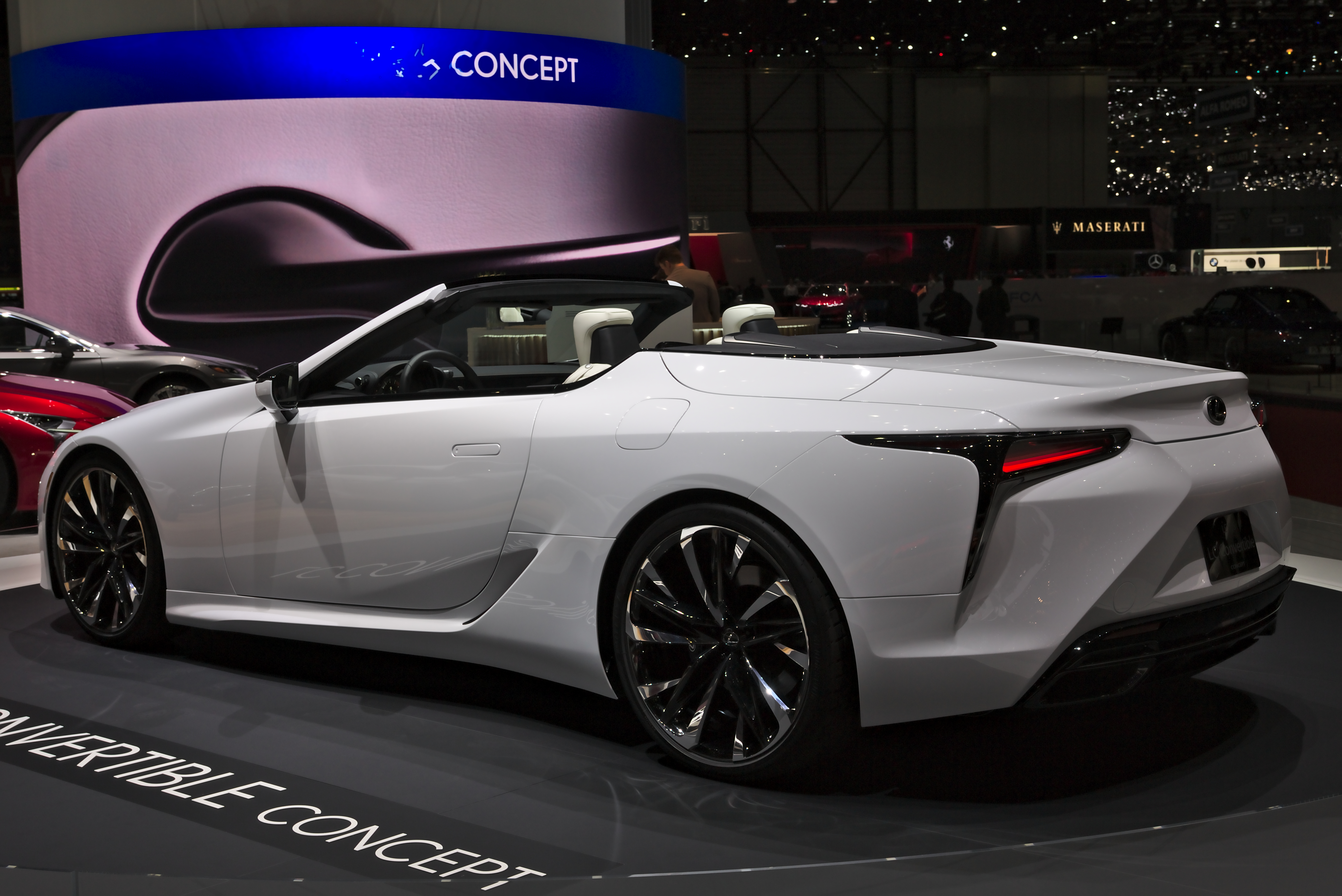 Lexus LC Convertible Concept at Geneva Motor Show 2019